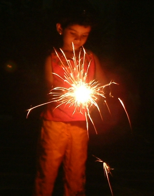 Kampithiri